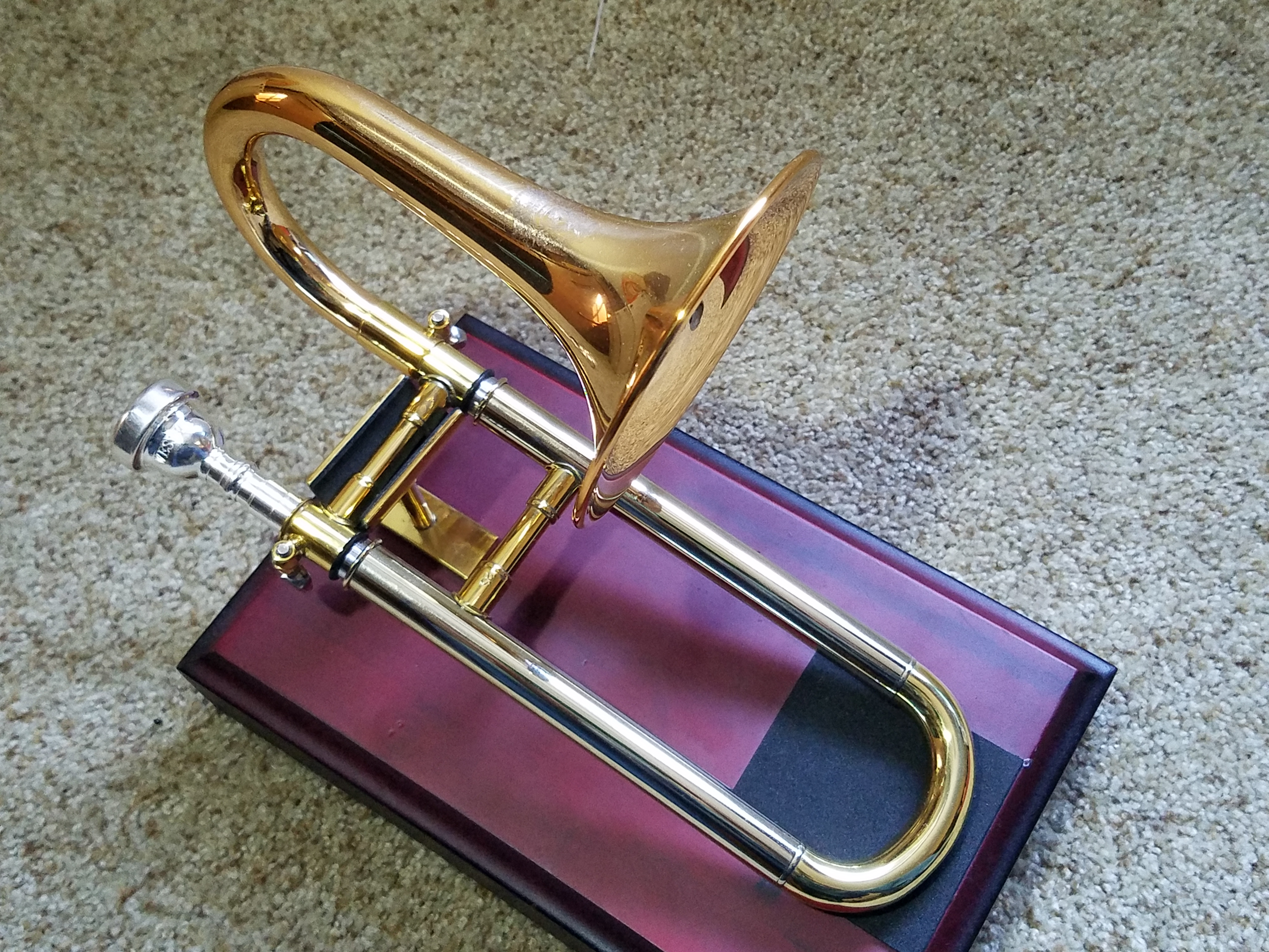 Wessex brand Piccolo Trombone